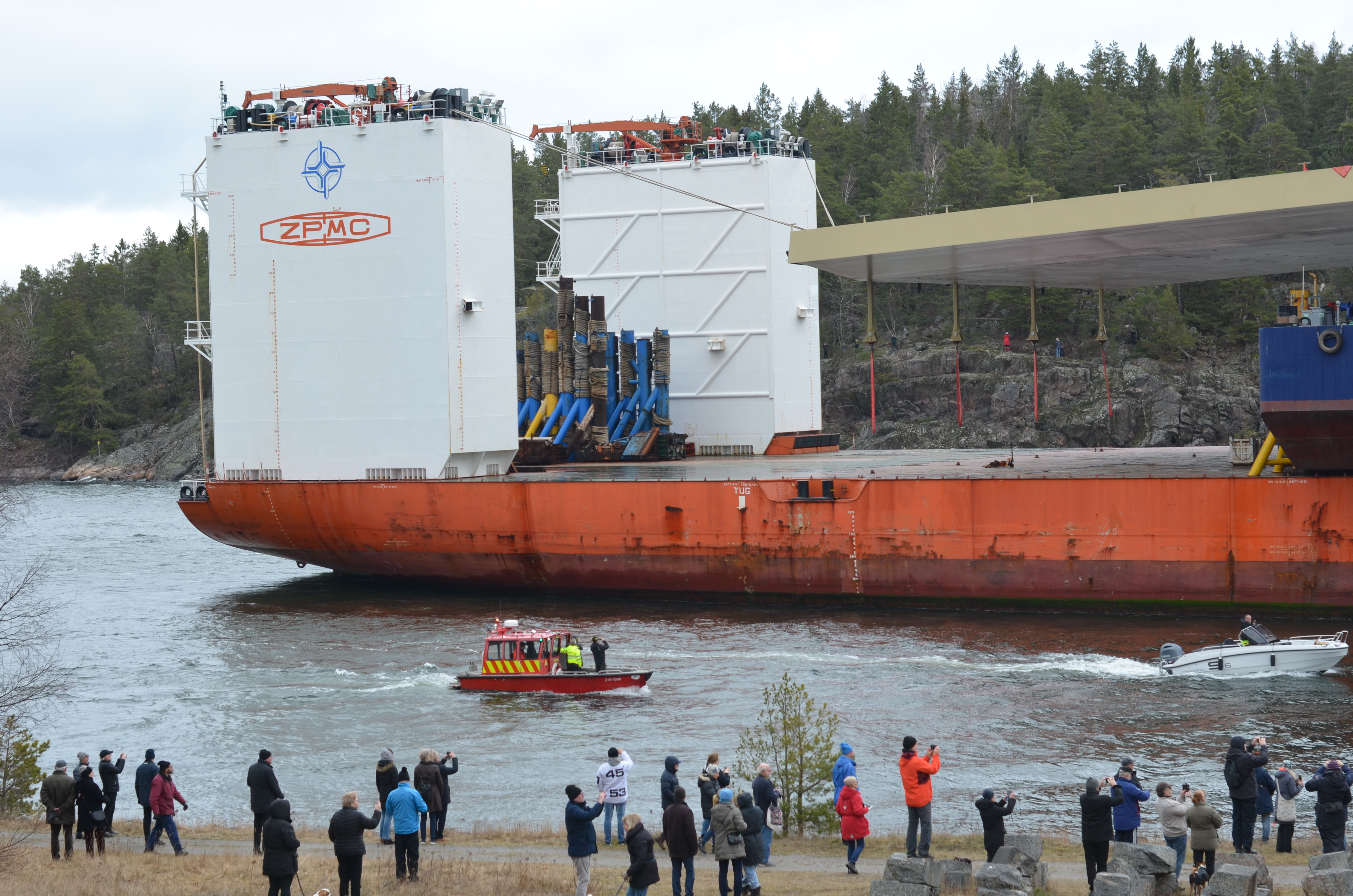 Chinese special cargo ship MS Zhen Hua 33 passing Oxdjupet Strait loaded with steel bridge for the Cty of Stockholm